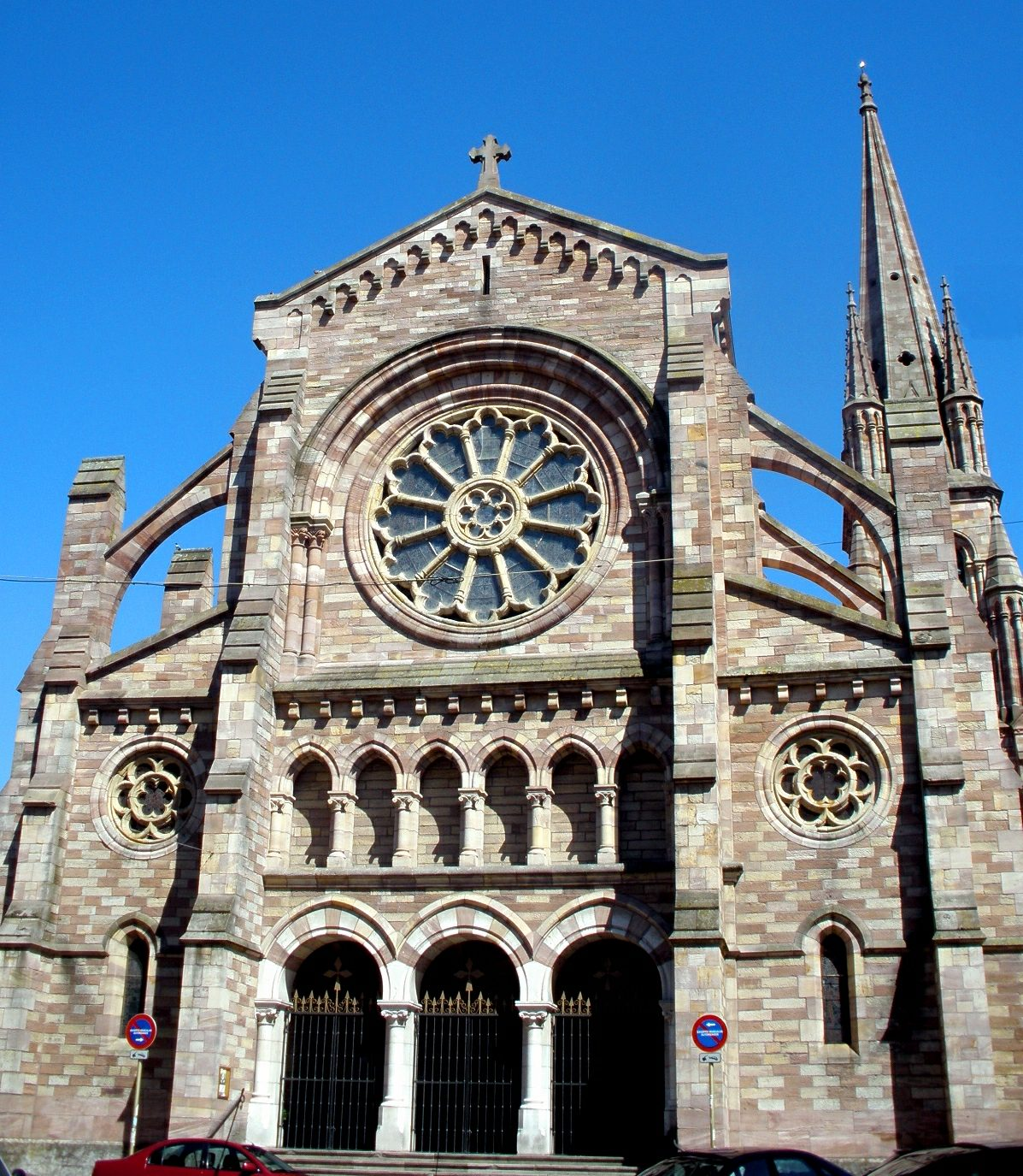 Iglesia de Nuestra Señora de la Asunción, Torrelavega (Cantabria, España)